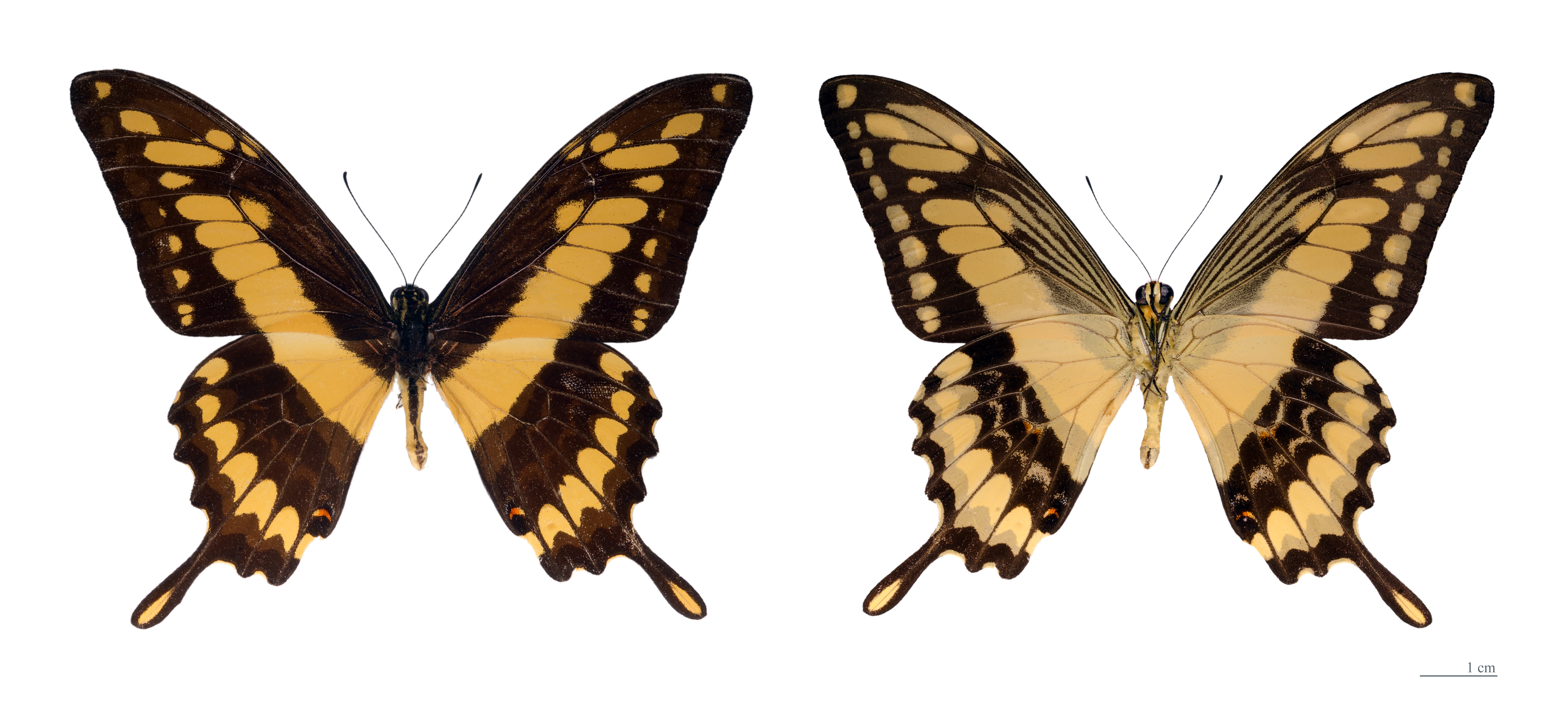 ♂ - Two views of same specimen Locality: Sentier du Rorota Cayenne, French Guianna.